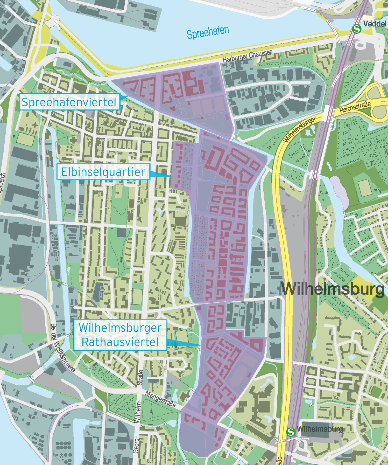 Localization in Wilhelmsburg.